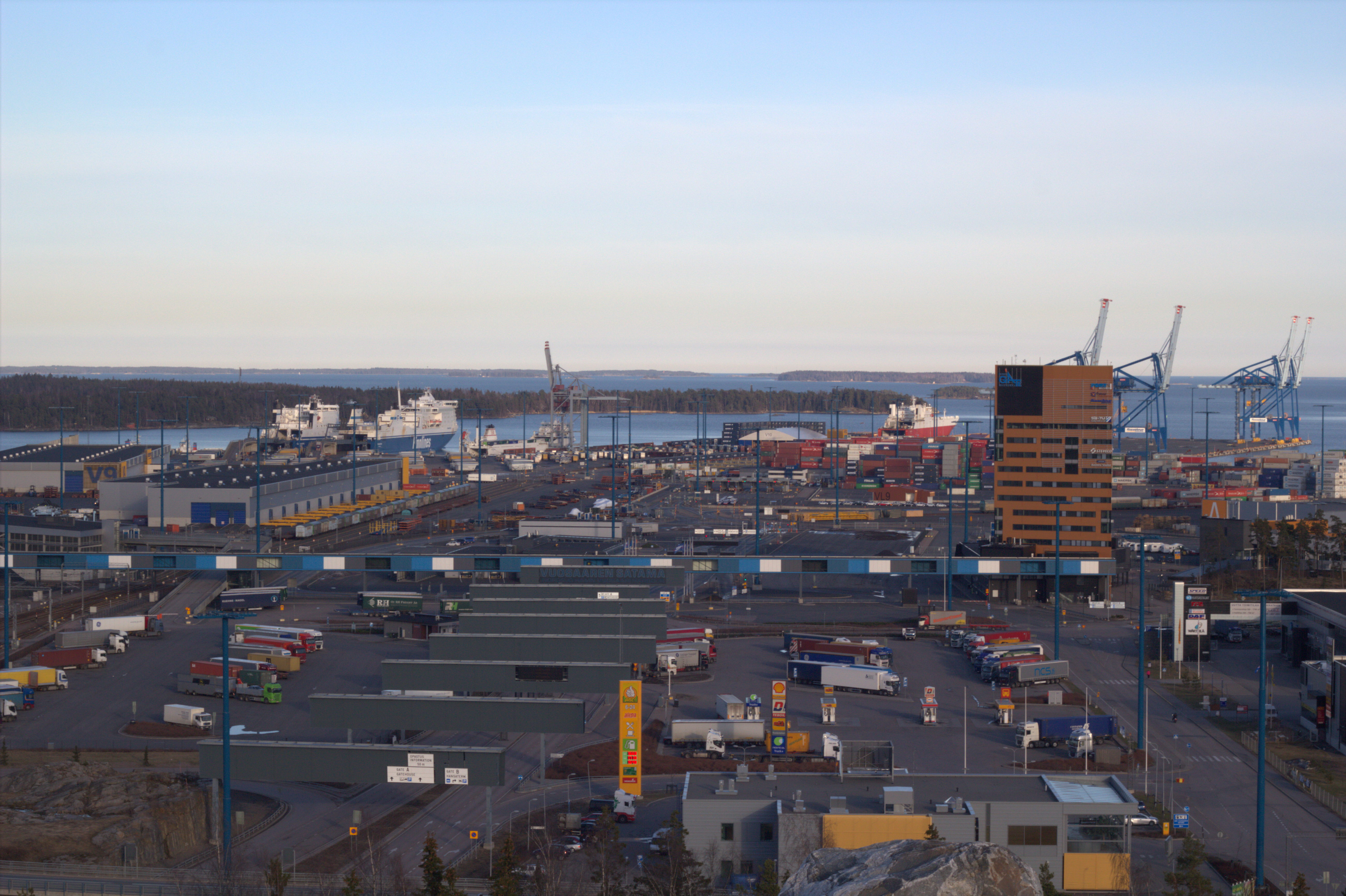 Vuosaari Harbour in Helsinki. Picture was taken from top of the overlook place at Vuosaarenhuippu